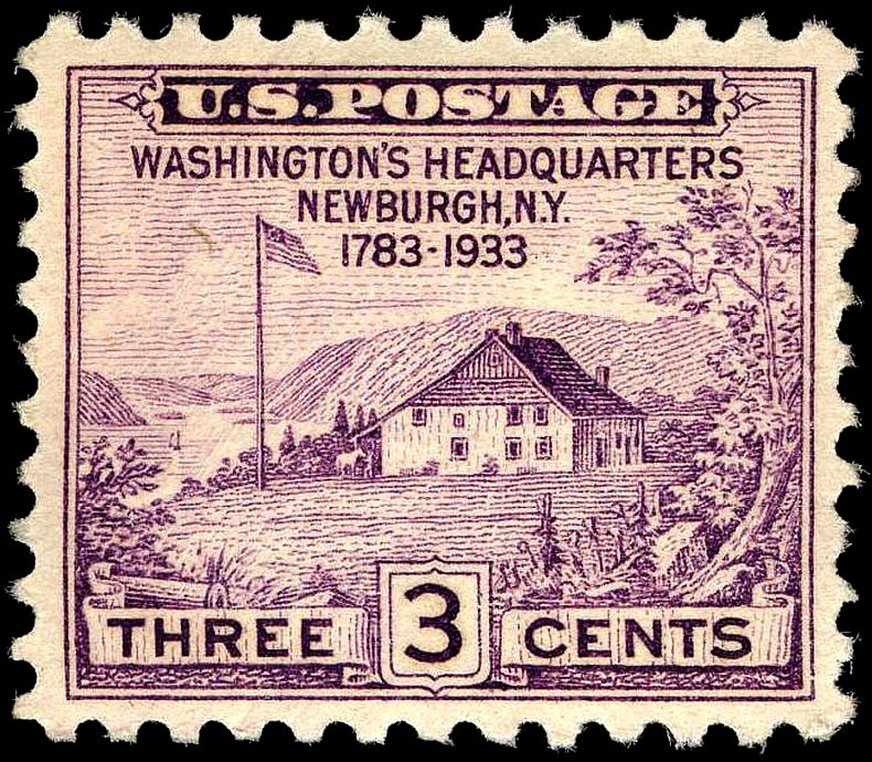 Image of Washington's HQ stamp, 3-cents, 1933 issue